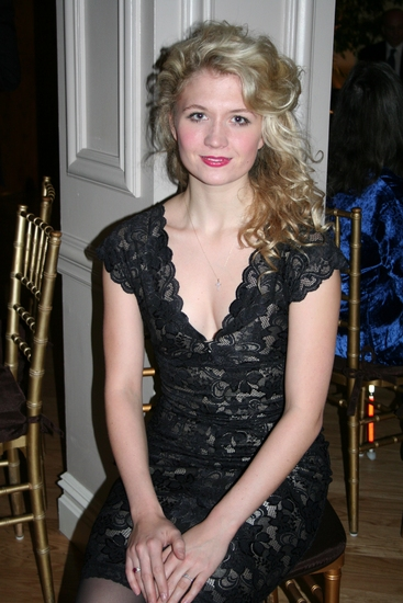 Scarlett Strallen (Mary Poppins)